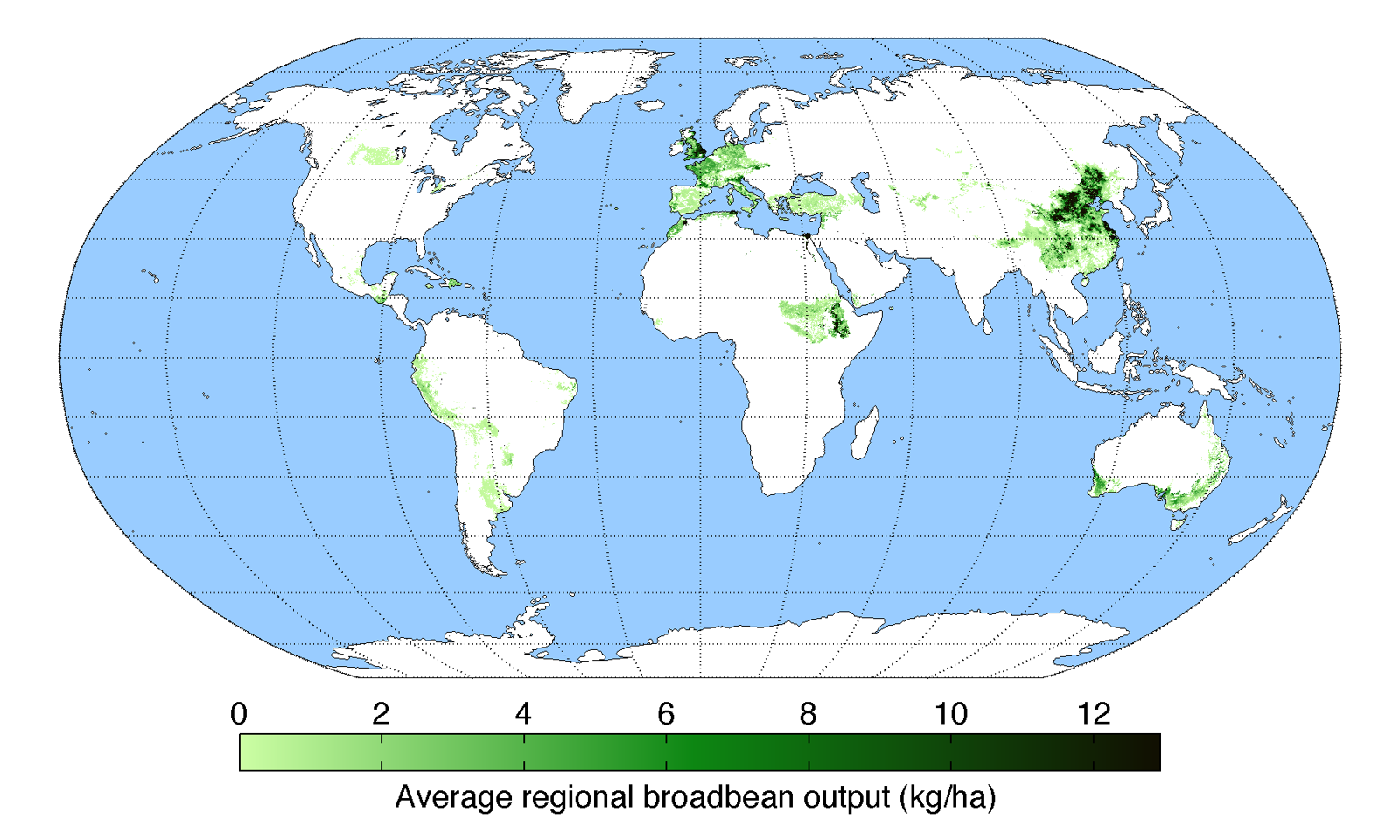 Map of broad bean production (average percentage of land used for its production times average yield in each grid cell) across the world compiled by the University of Minnesota Institute on the Environment with data from: Monfreda, C., N. Ramankutty, and J.A. Foley. 2008. Farming the planet: 2. Geographic distribution of crop areas, yields, physiological types, and net primary production in the year 2000. Global Biogeochemical Cycles 22: GB1022